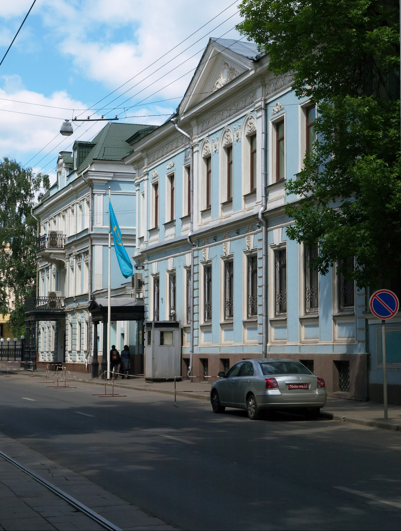 Embassy of Kazakhstan in Moscow (Chistoprudny Boulevard)